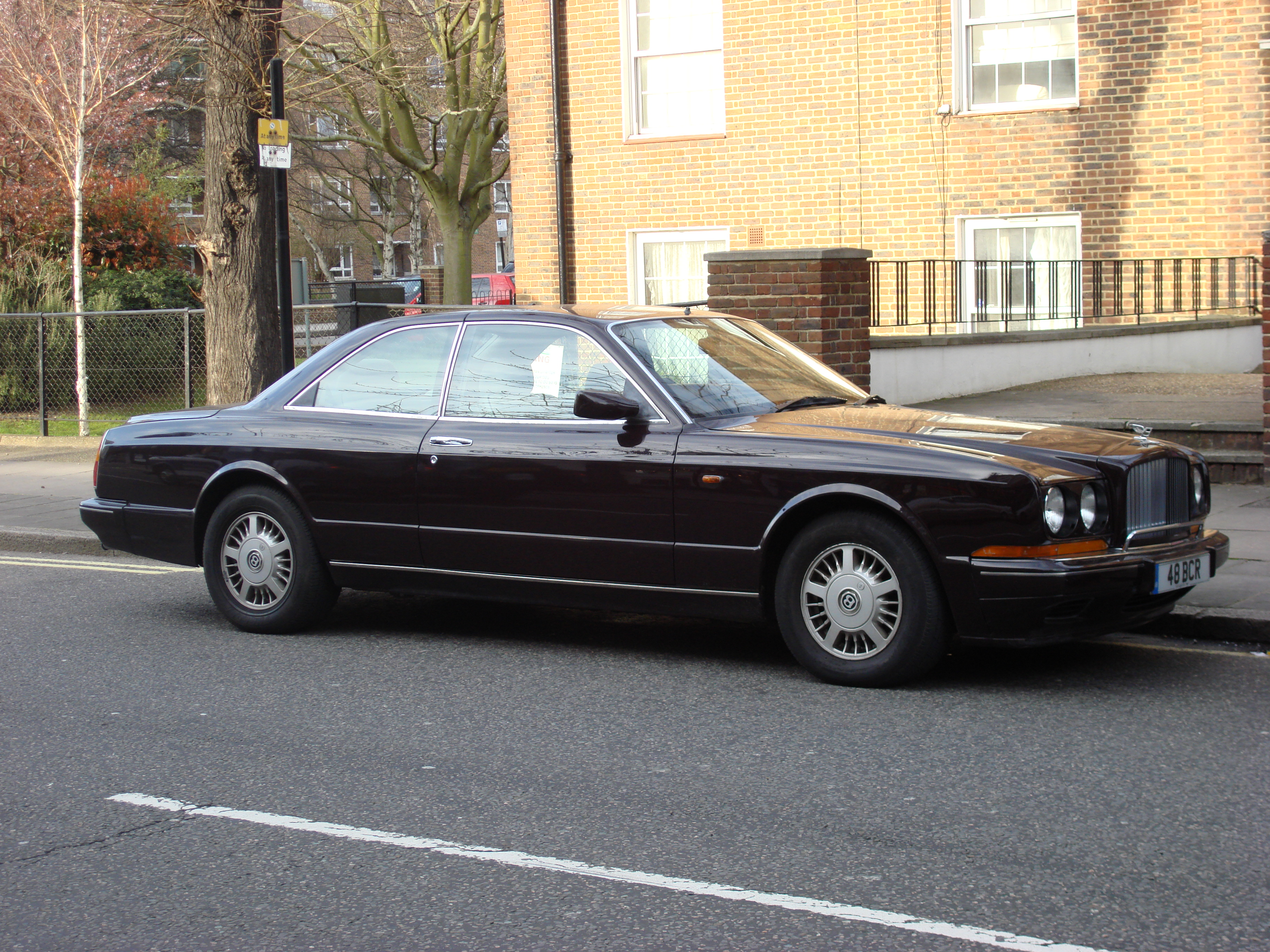 A 1992 (first registered on 21 December, 1992) Bentley Continental R in St John's Wood, London UK.